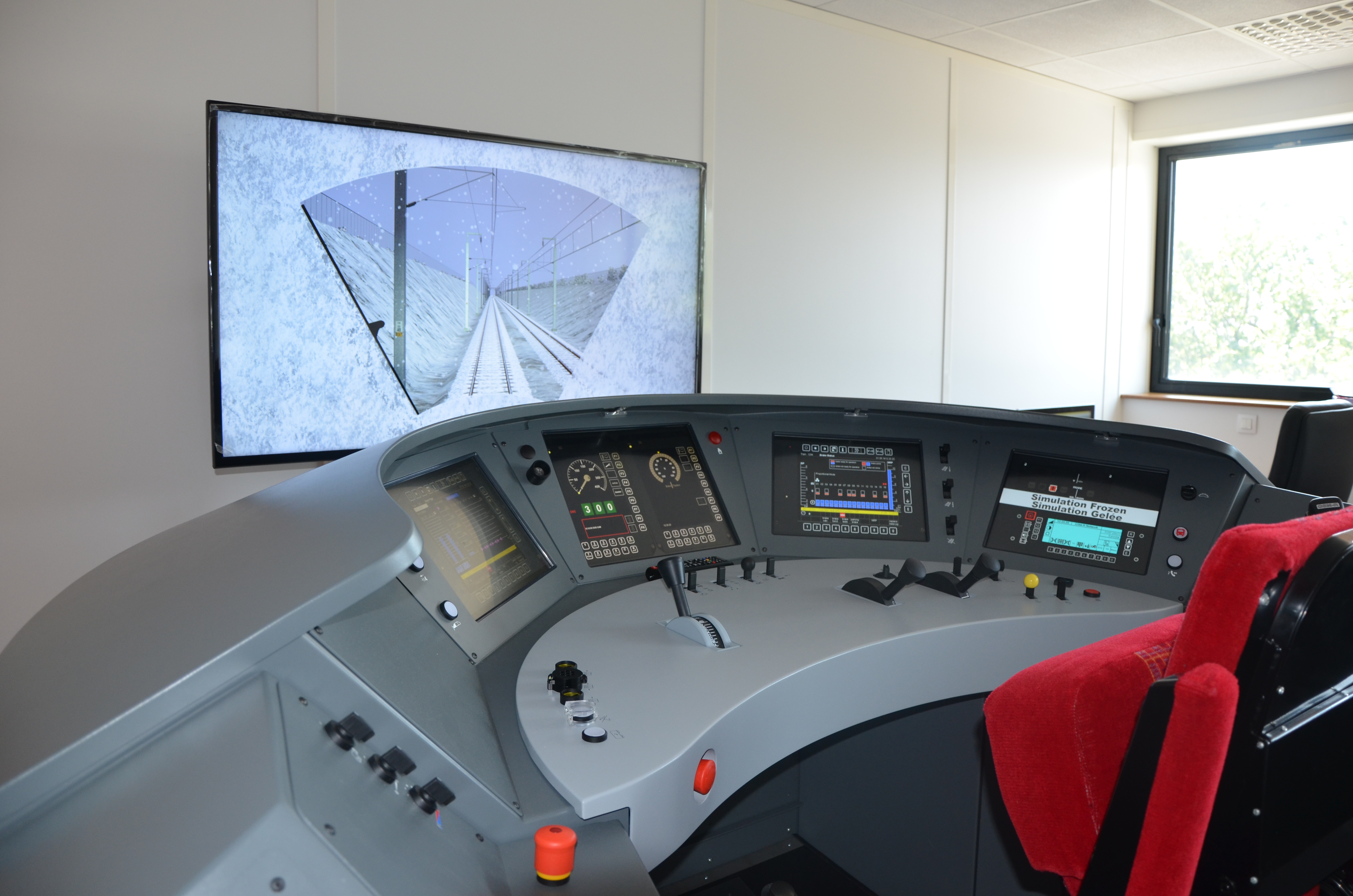 Desk simulator for Eurostar